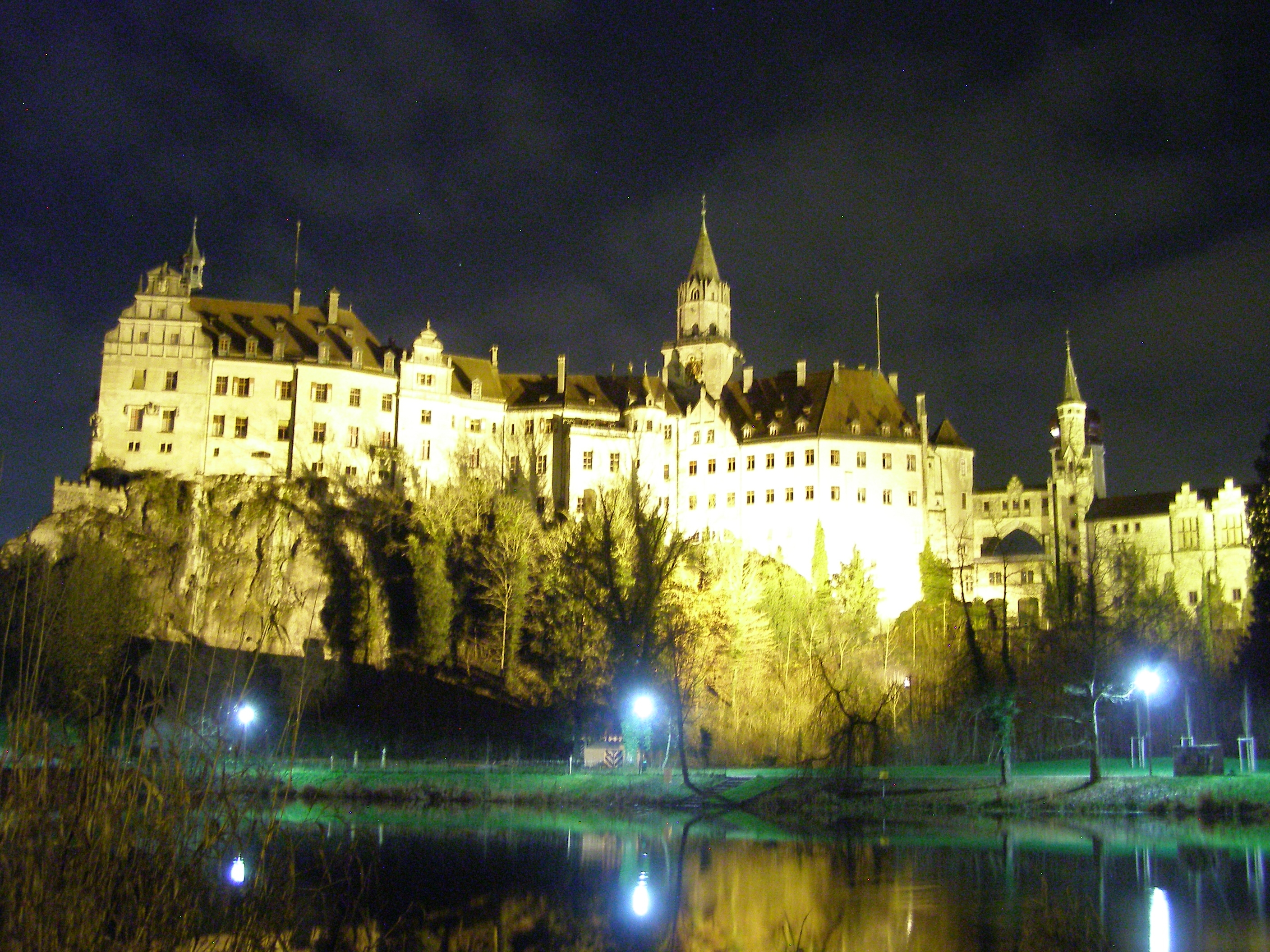 Sigmaringen - Hohenzollern castle